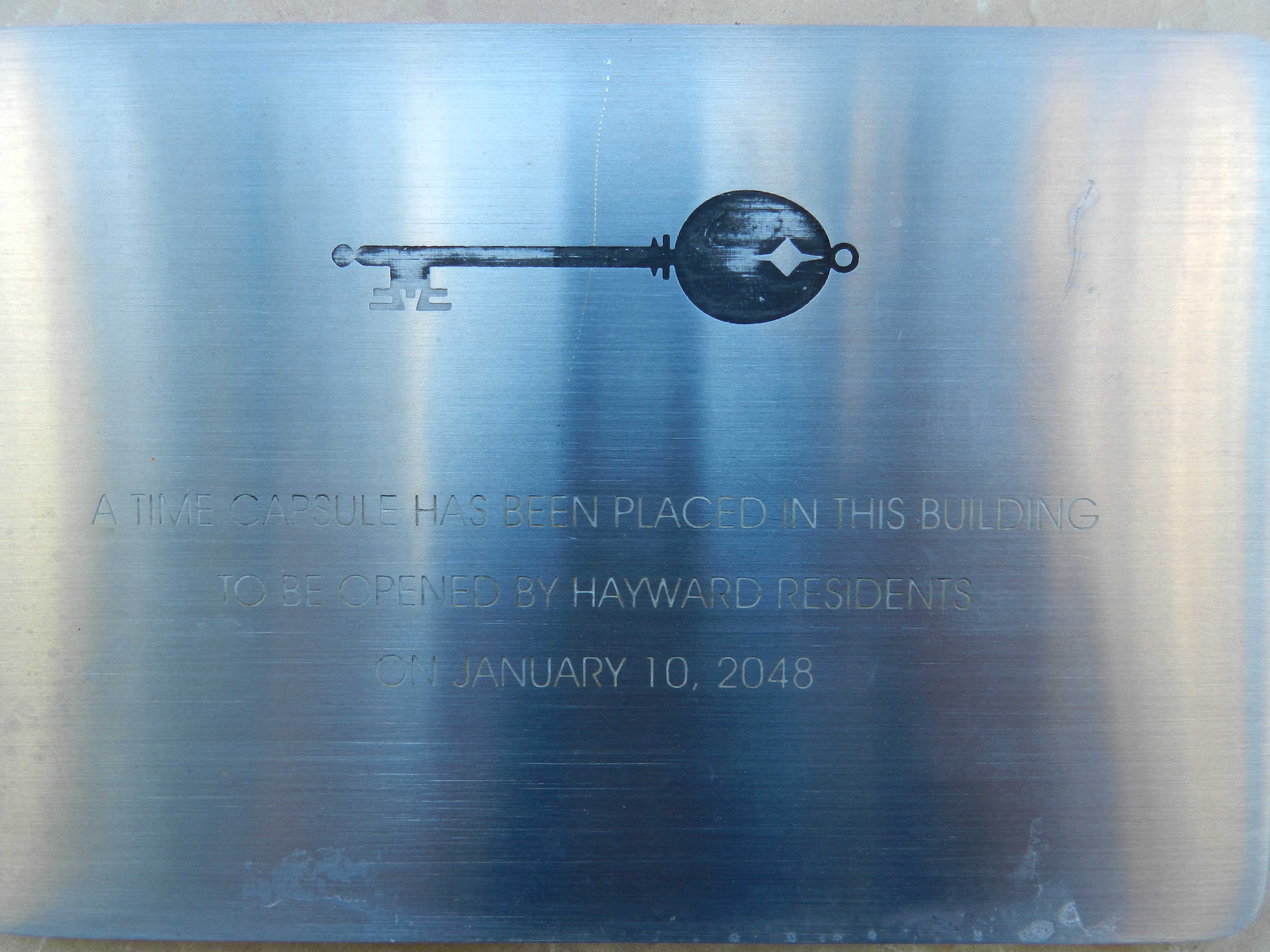 plaque commemorating the placement of a time capsule below the Hayward City Hall building